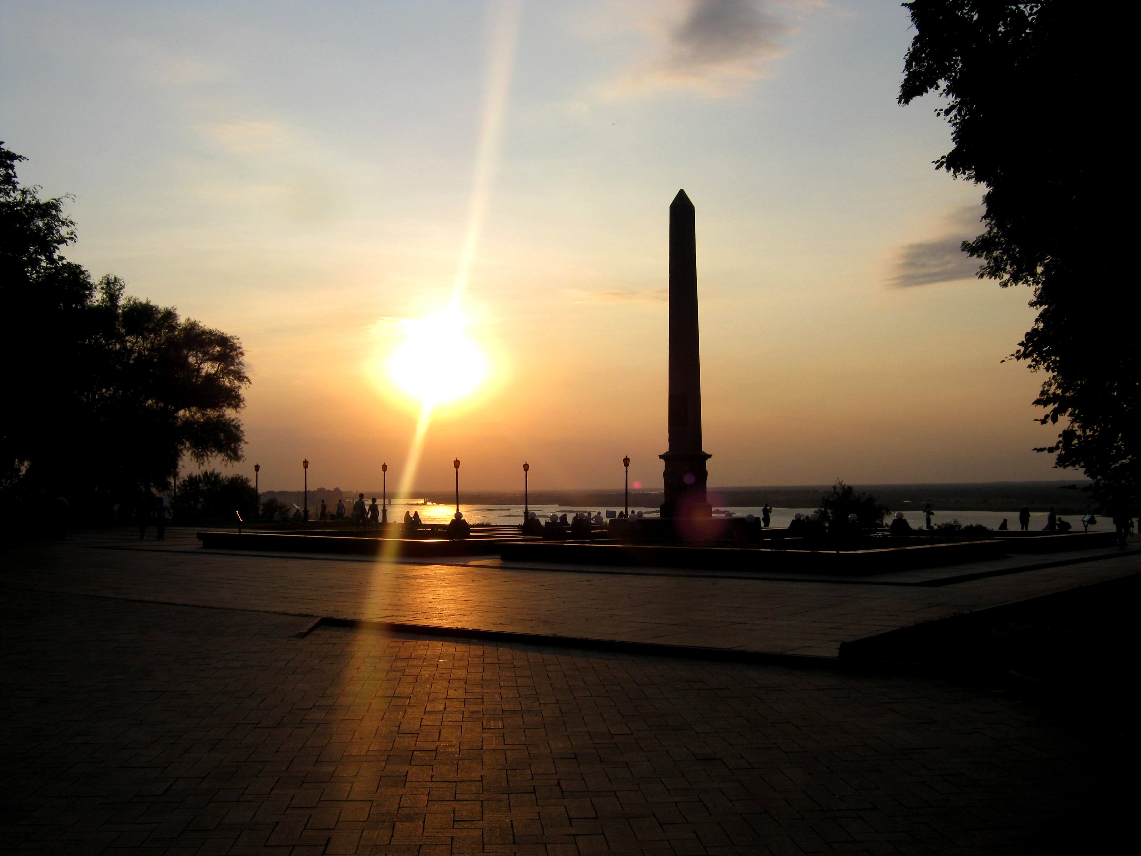 Обелиск Минину и Пожарскому (Нижний Новгород)